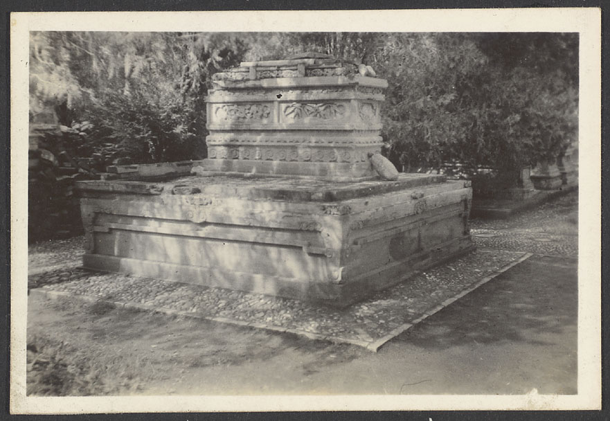 Tomb of the Chinese Muslim general Ma Anliang who was born in 1852 and died in 1918.